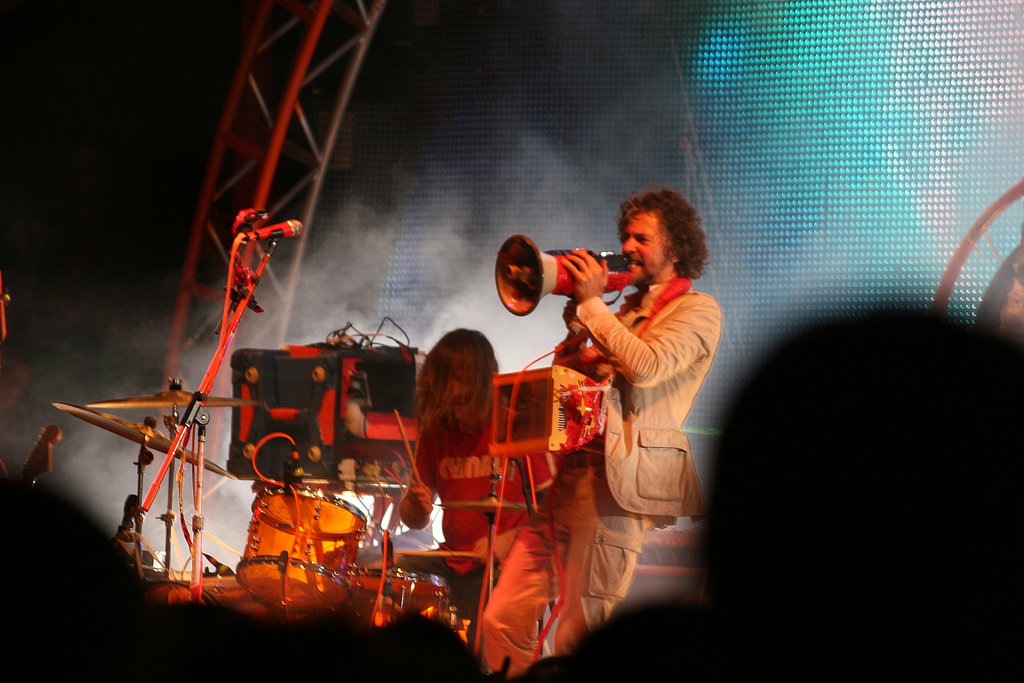 The Flaming Lips, Southern Comfort Music Experience, Alliant Energy Center, Madison, Wisconsin, September 8, 2007.